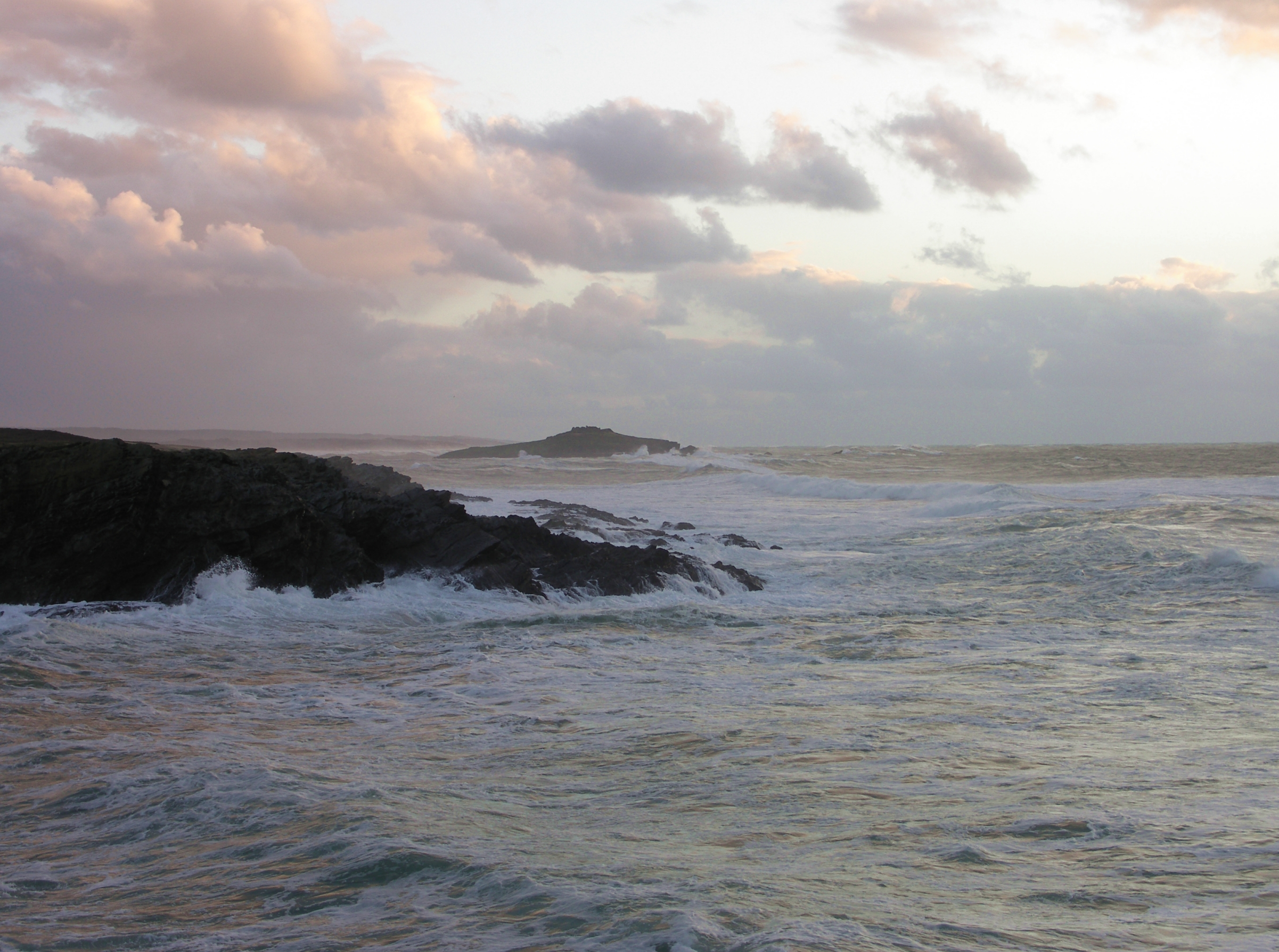 Porto Covo, west coast of Portugal.